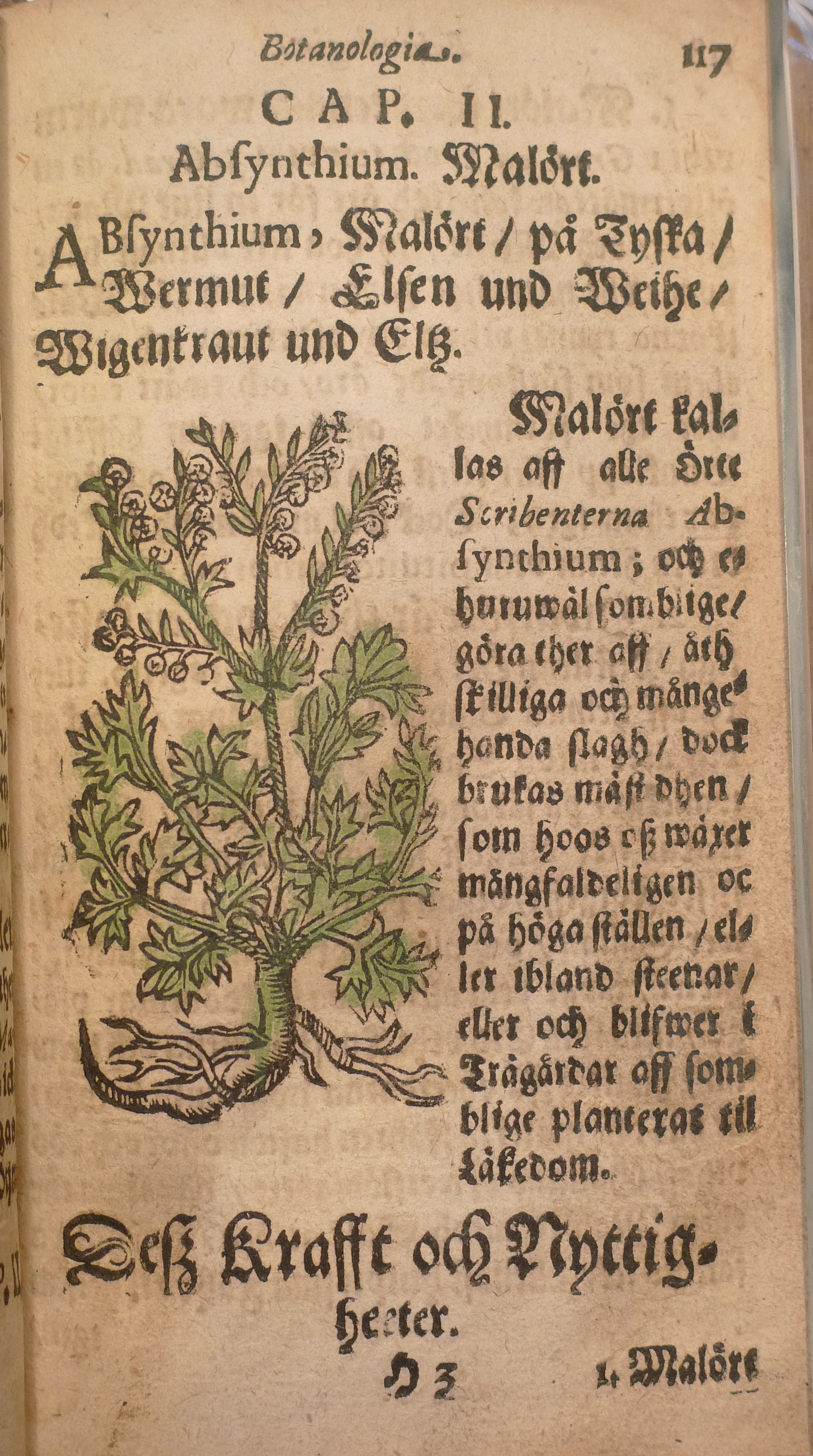 15th century book page from Swenske Örtekrantz by Johannes Palmberg on description and medical use of wormwood, Artemisia absinthium